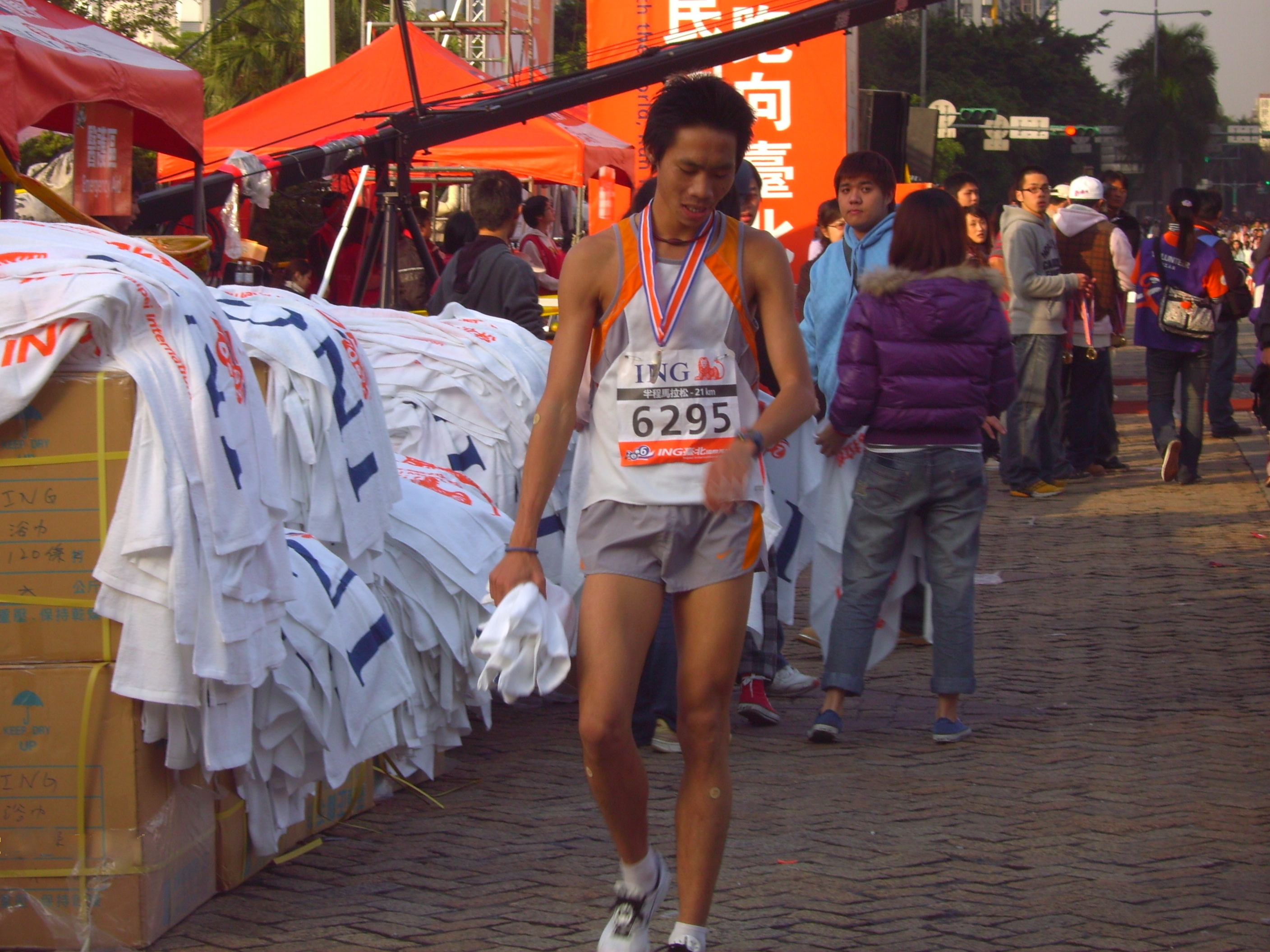 Chin-Ping Ho loses Wen-Chien Wu just 12 seconds in Men's 21KM Marathon Group at 2006 ING the 10th Taipei International Marathon.